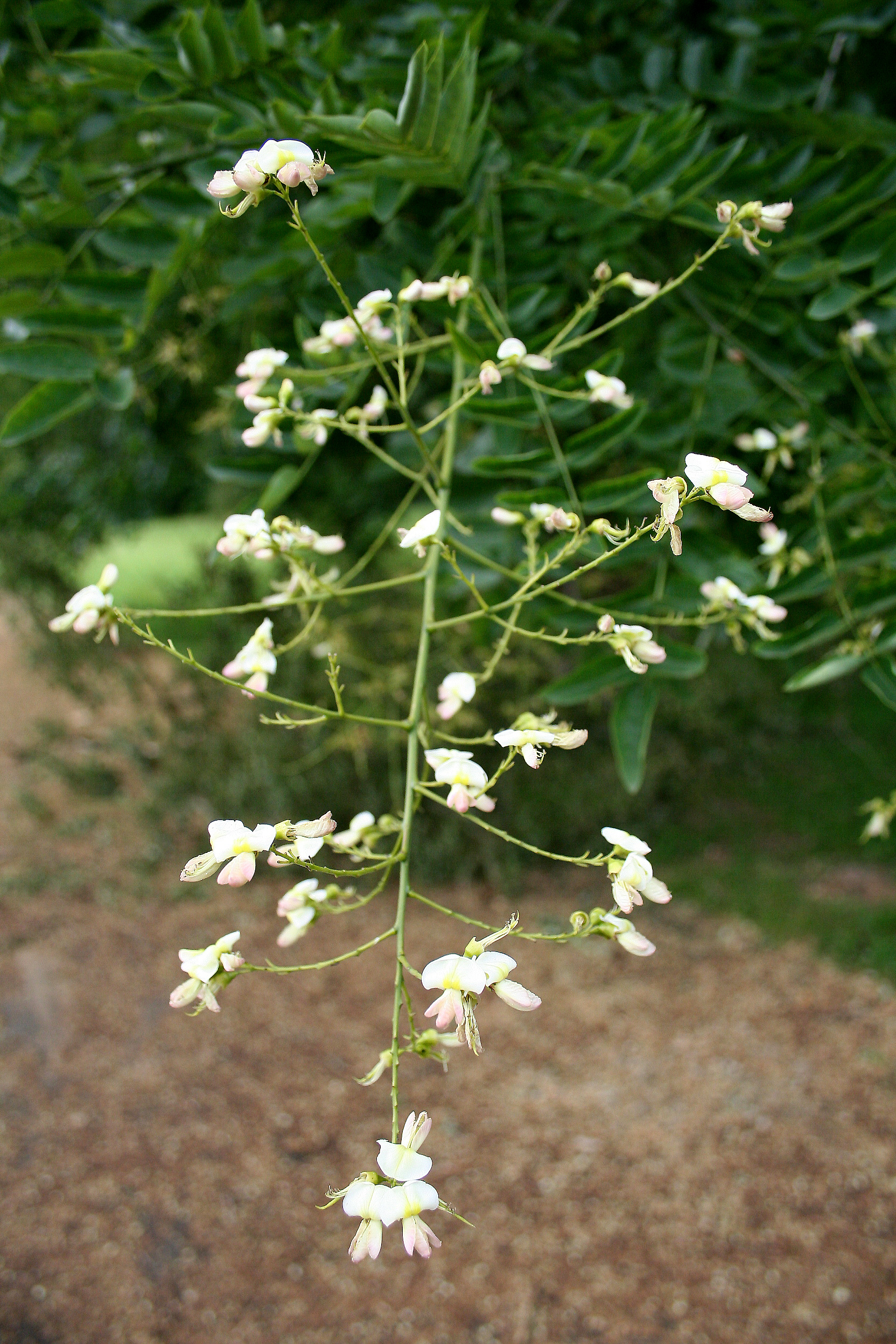 Pagoda Tree